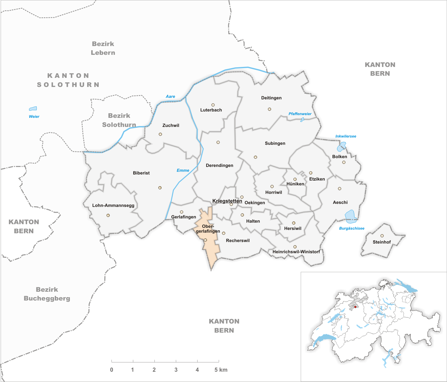 Municipality Obergerlafingen